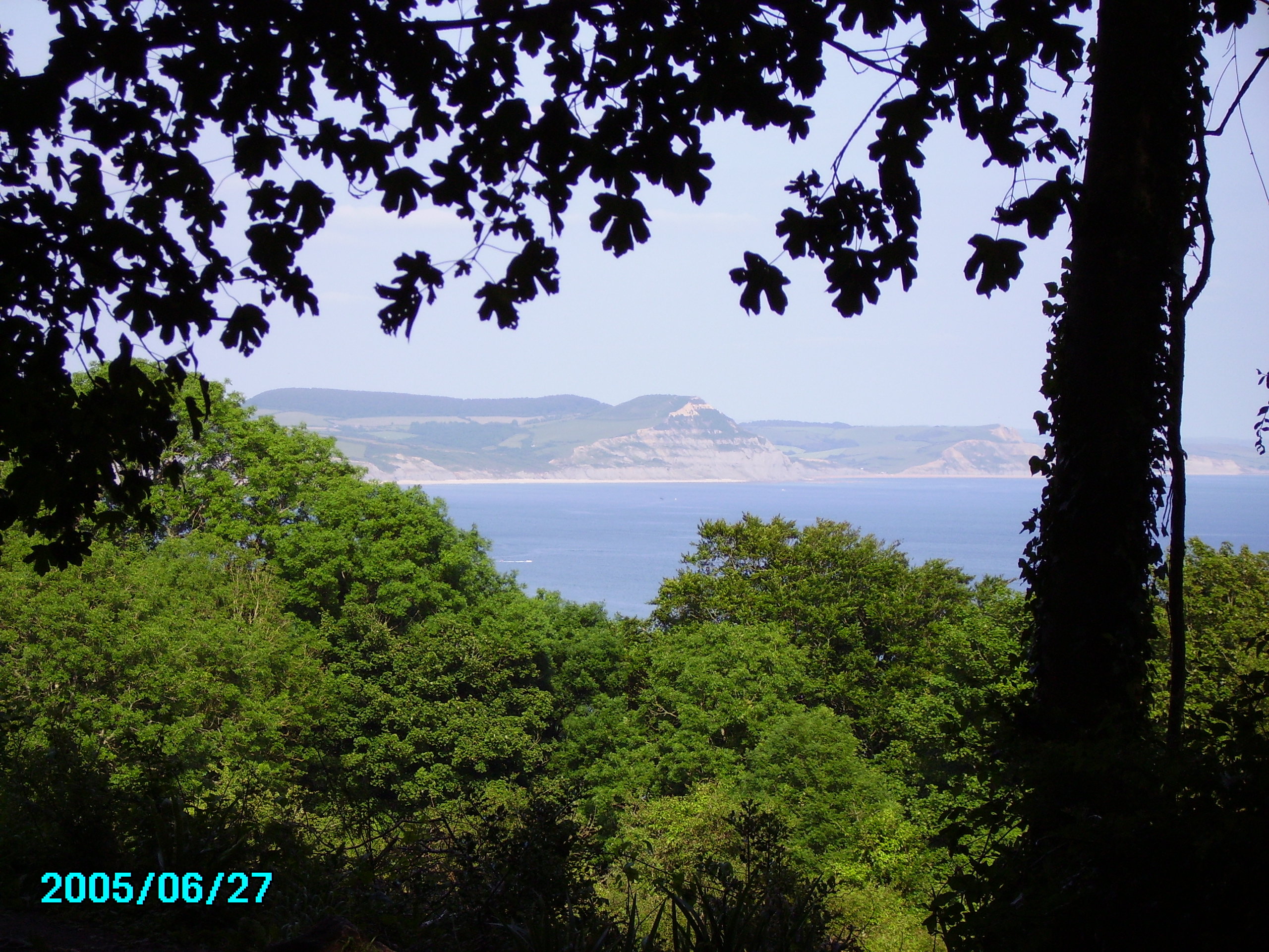 Photographer: User:Ballista